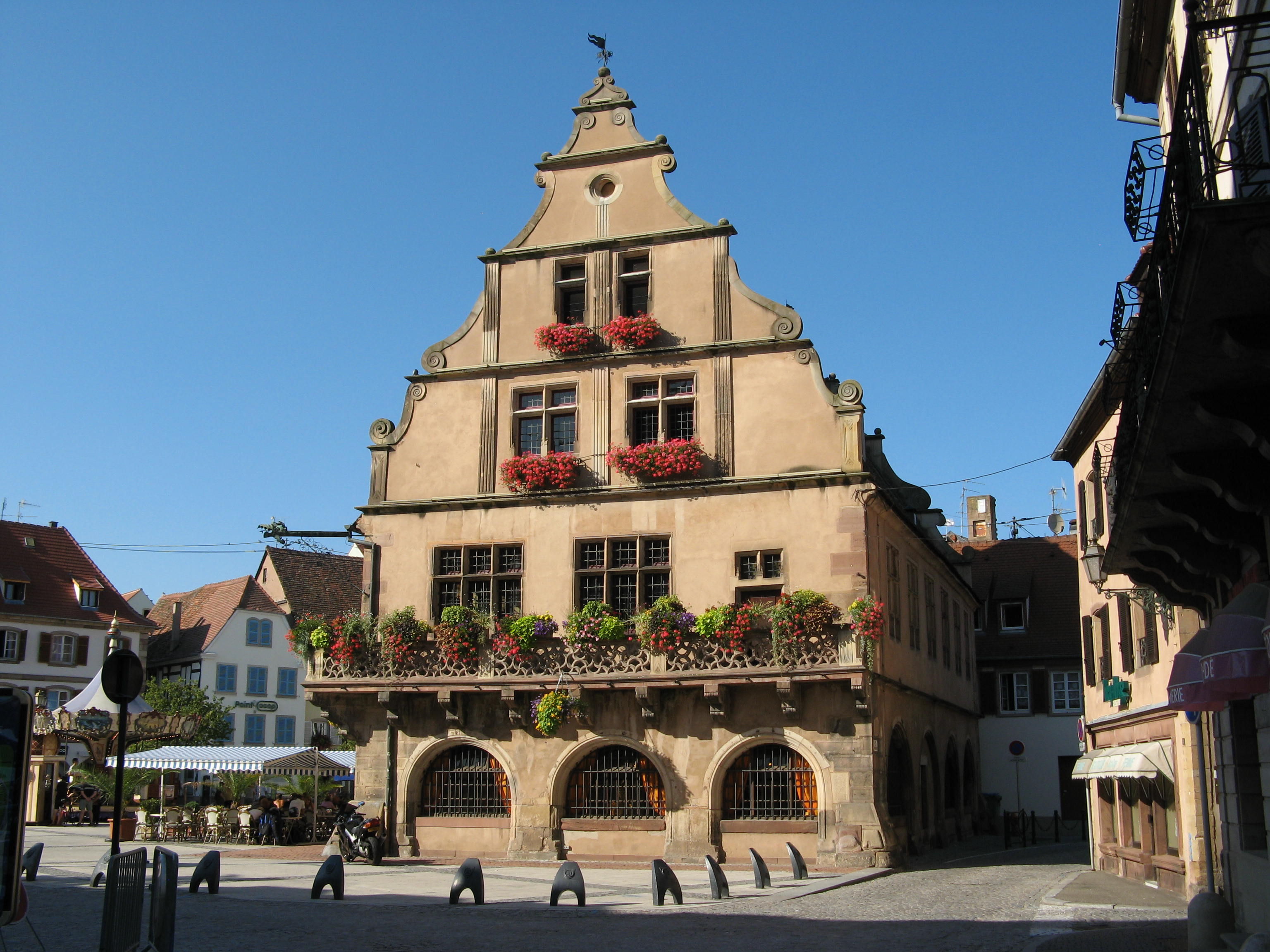 Metzig - old Butchers'shop